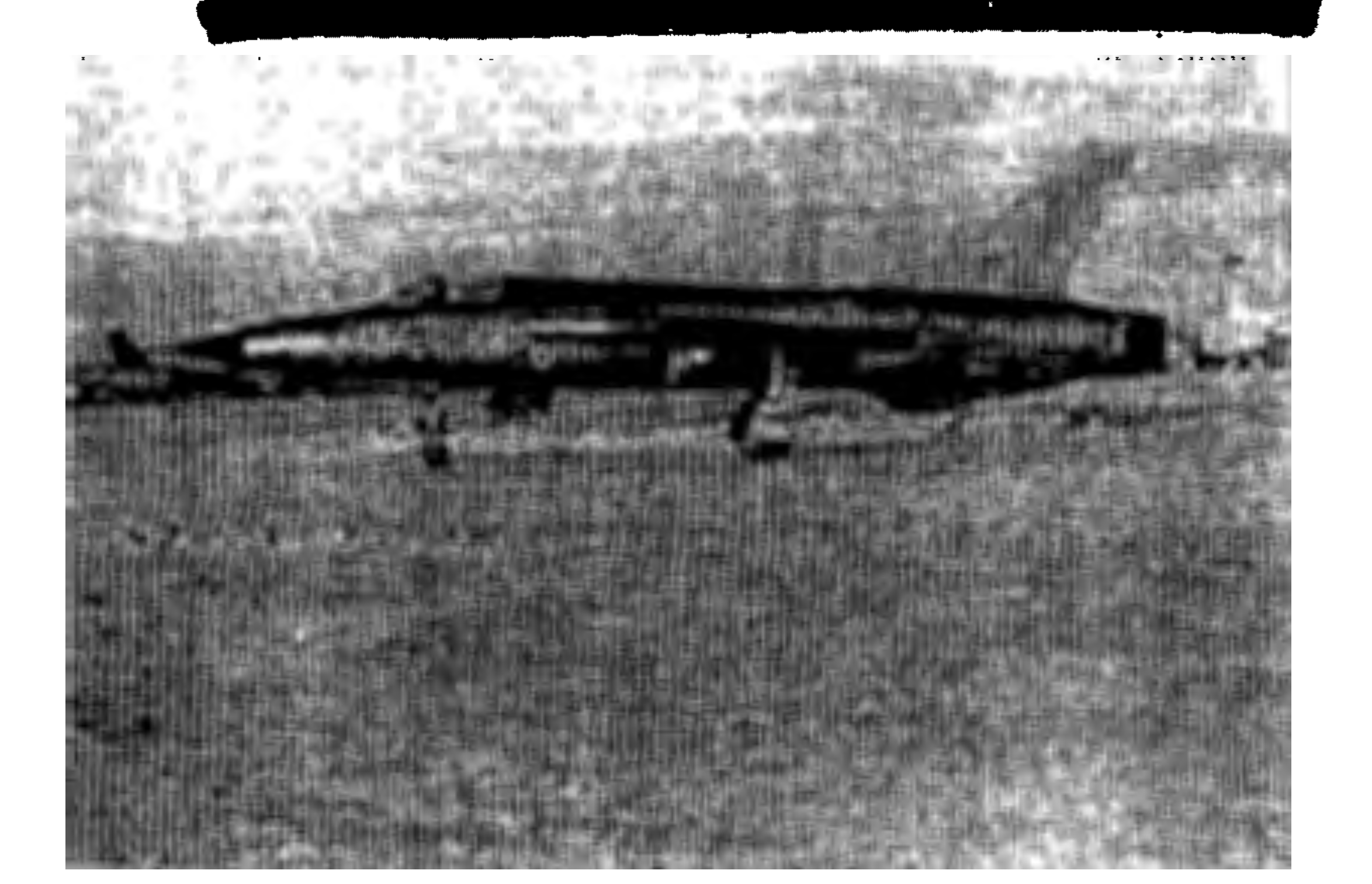 F-105 aircraft used in military test Night Train